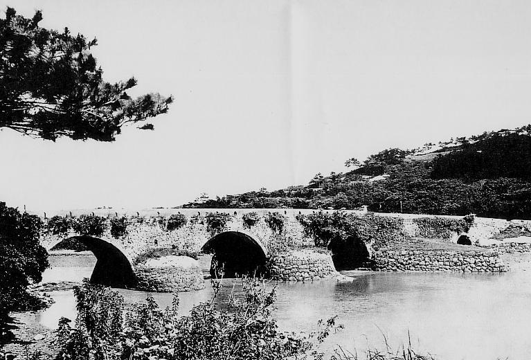 Madan Bridge in Pre-war Showa era